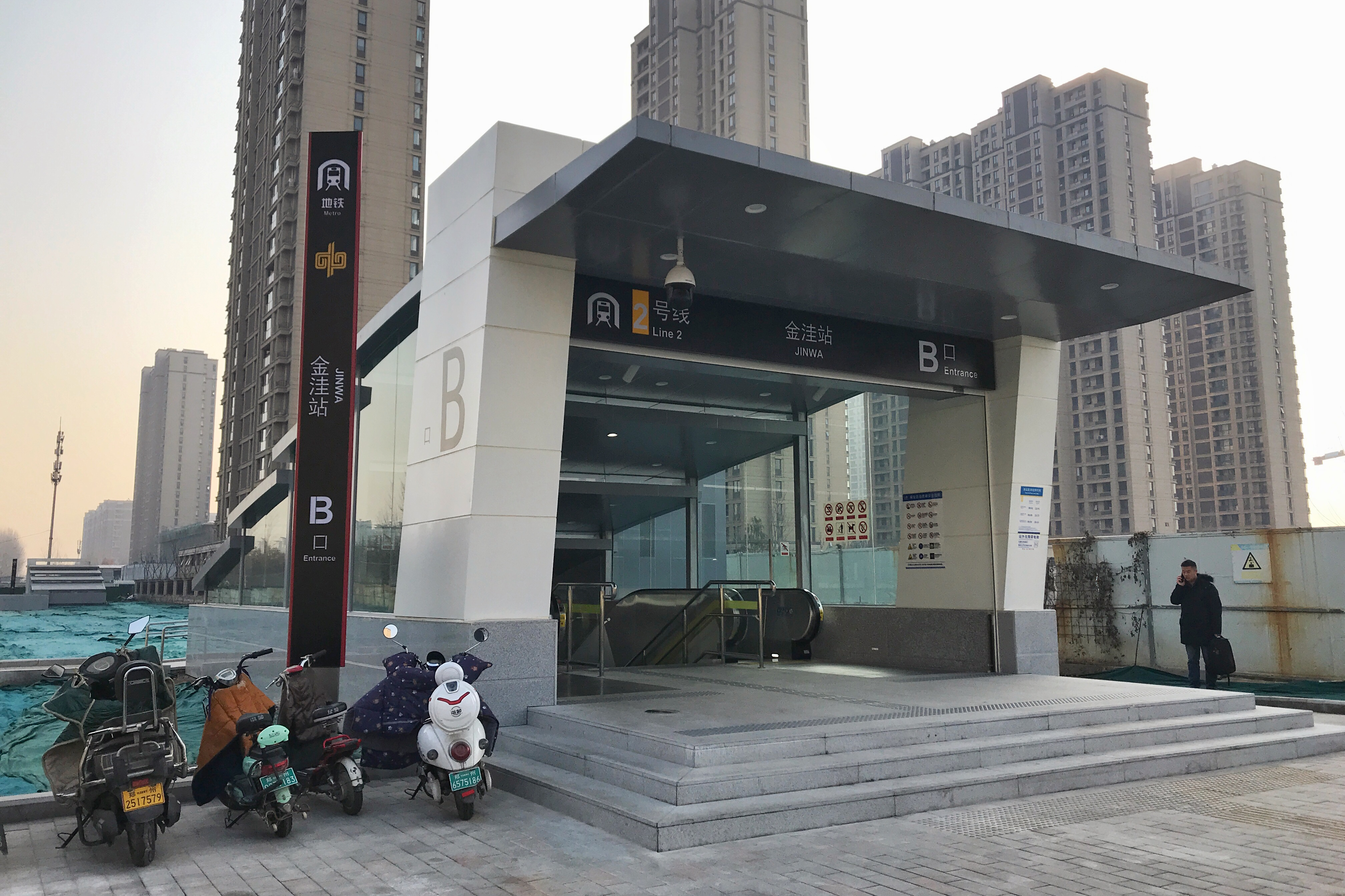 Exit B of Jinwa Station